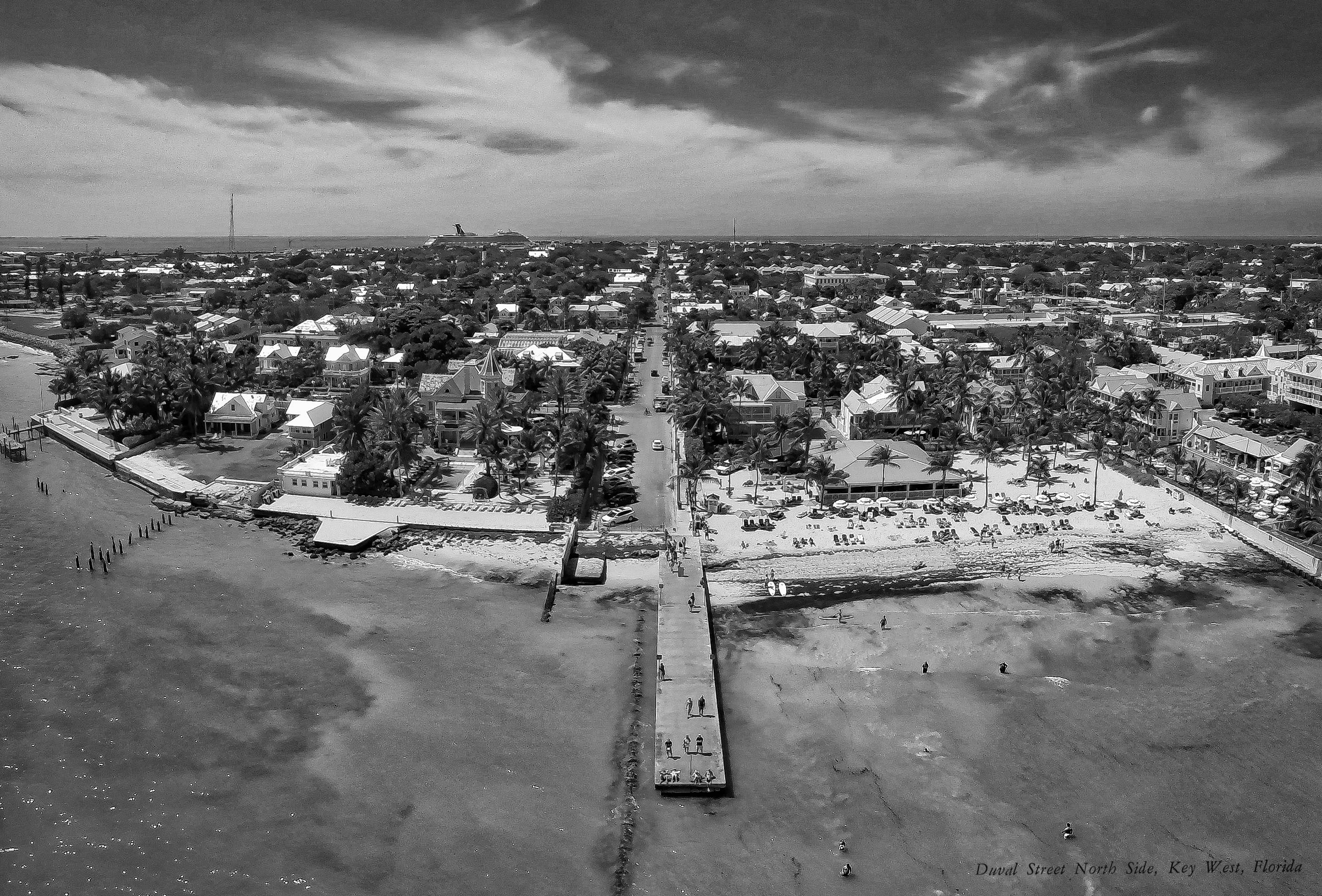 Duval Street, a famous downtown street in Key West, Florida. Picture taken from the air on the north side of the island.